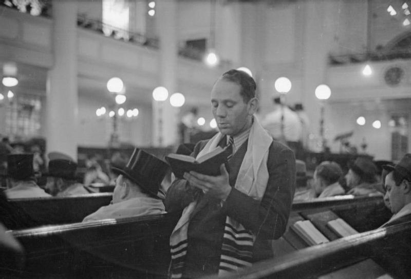 The Great Synagogue After 250 Years, Dukes Place, London, 1941 A member of the congregation prays at the Great Synagogue in Dukes Place, East London. He is standing amongst the pews holding his prayer book and wears the traditional cap and scarf (prayer shawl) which must be worn in the Synagogue.